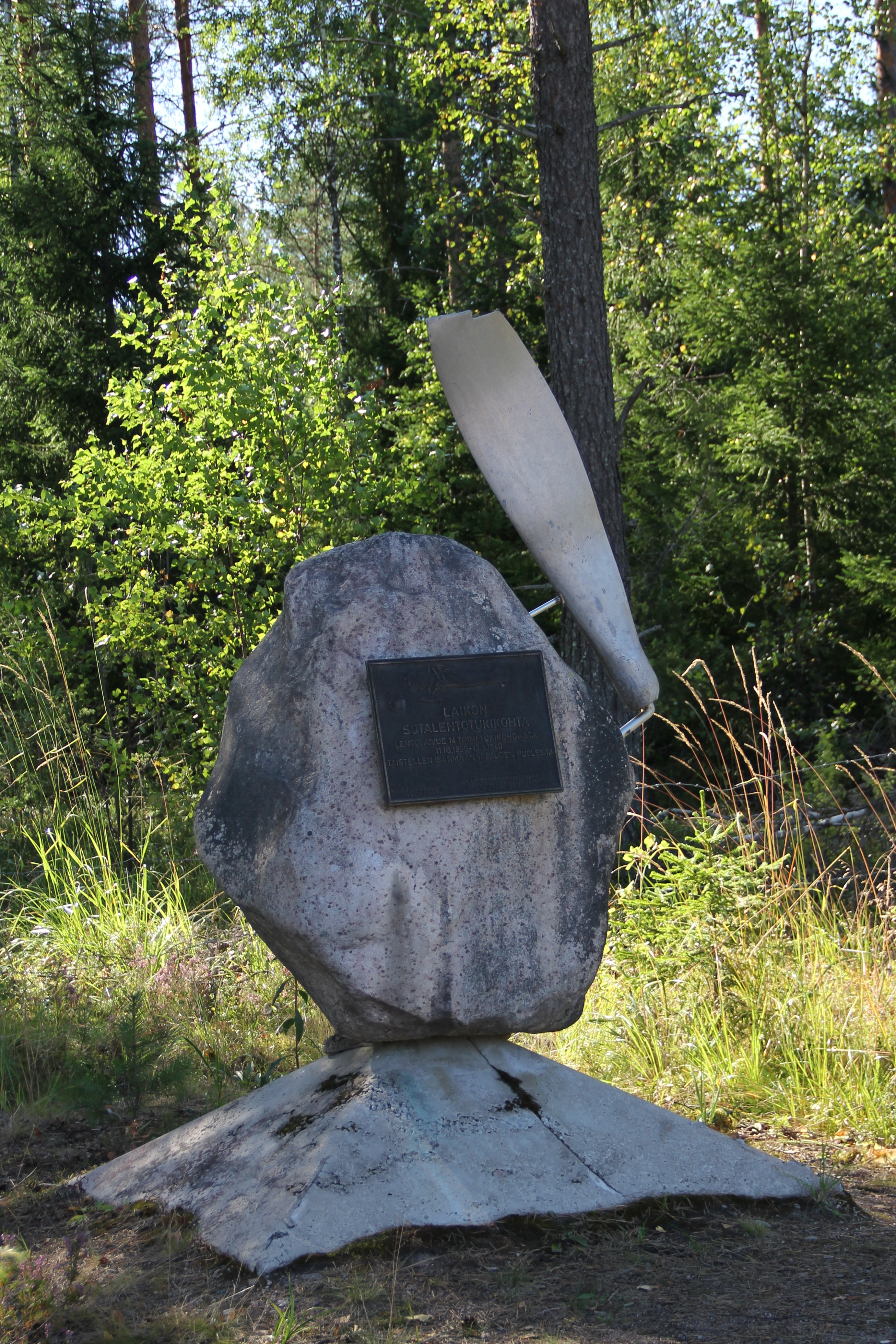 Laikko military air base memorial, Laikko, Rautjärvi, Finland. - Memorial.